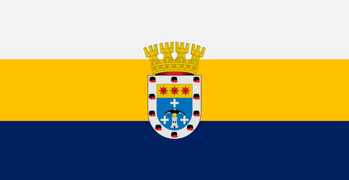 Flag of Mariquina commune (Chile)